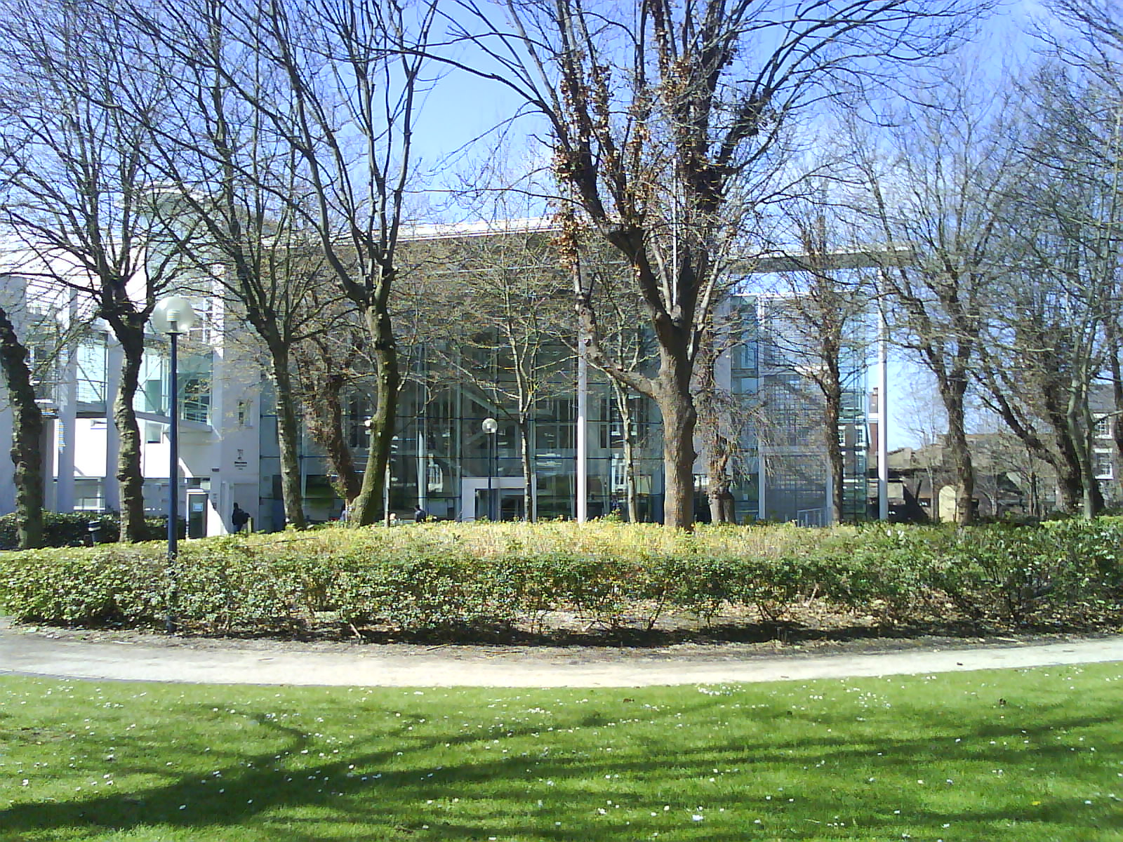 I own this image and release into public domain. ALdham Robarts LRC 24/04/08